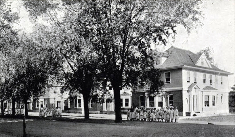 Girls Cottages, Soldiers Orphans Home, Normal, Illinois, ca 1908